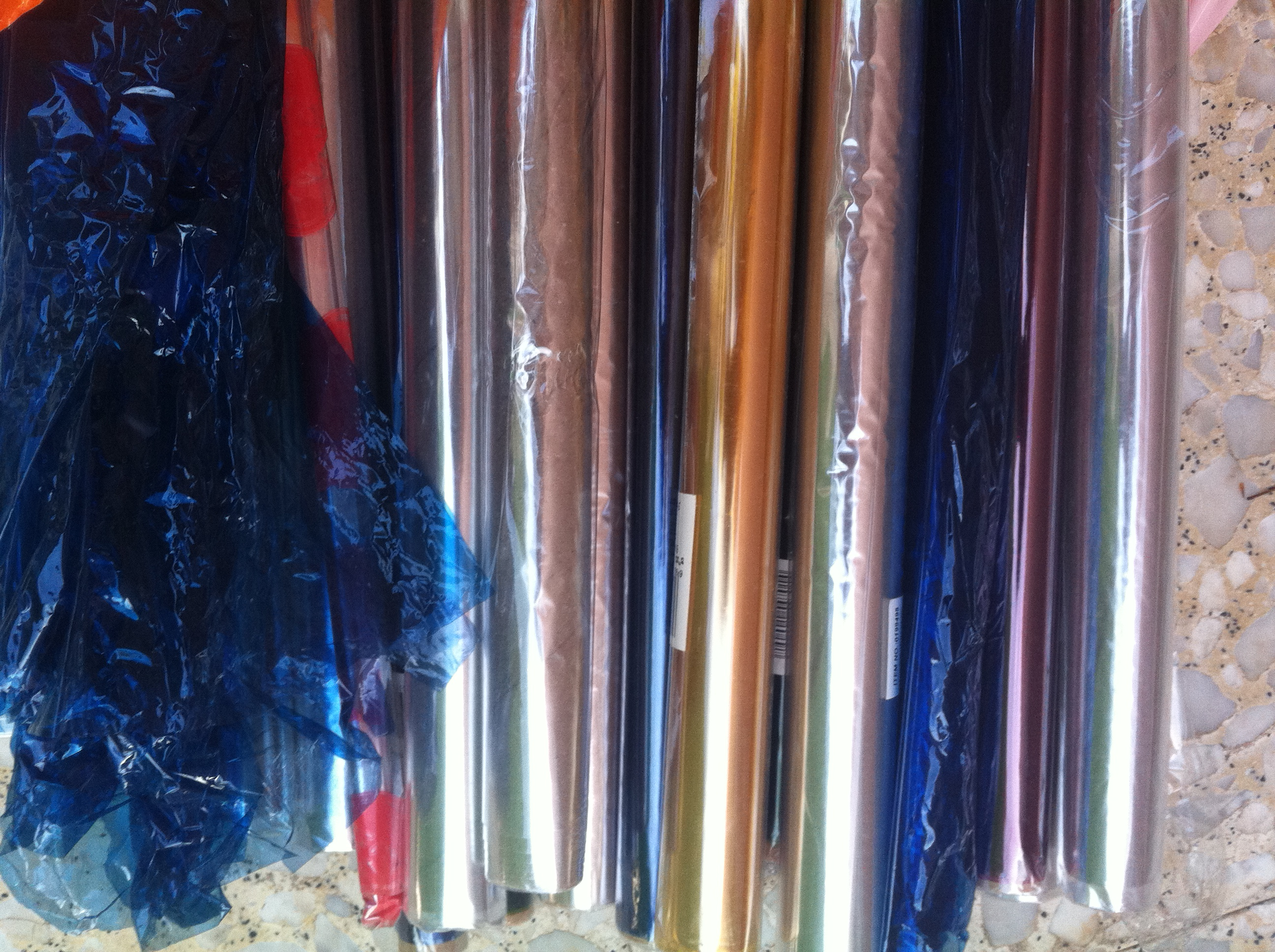 Cellophane